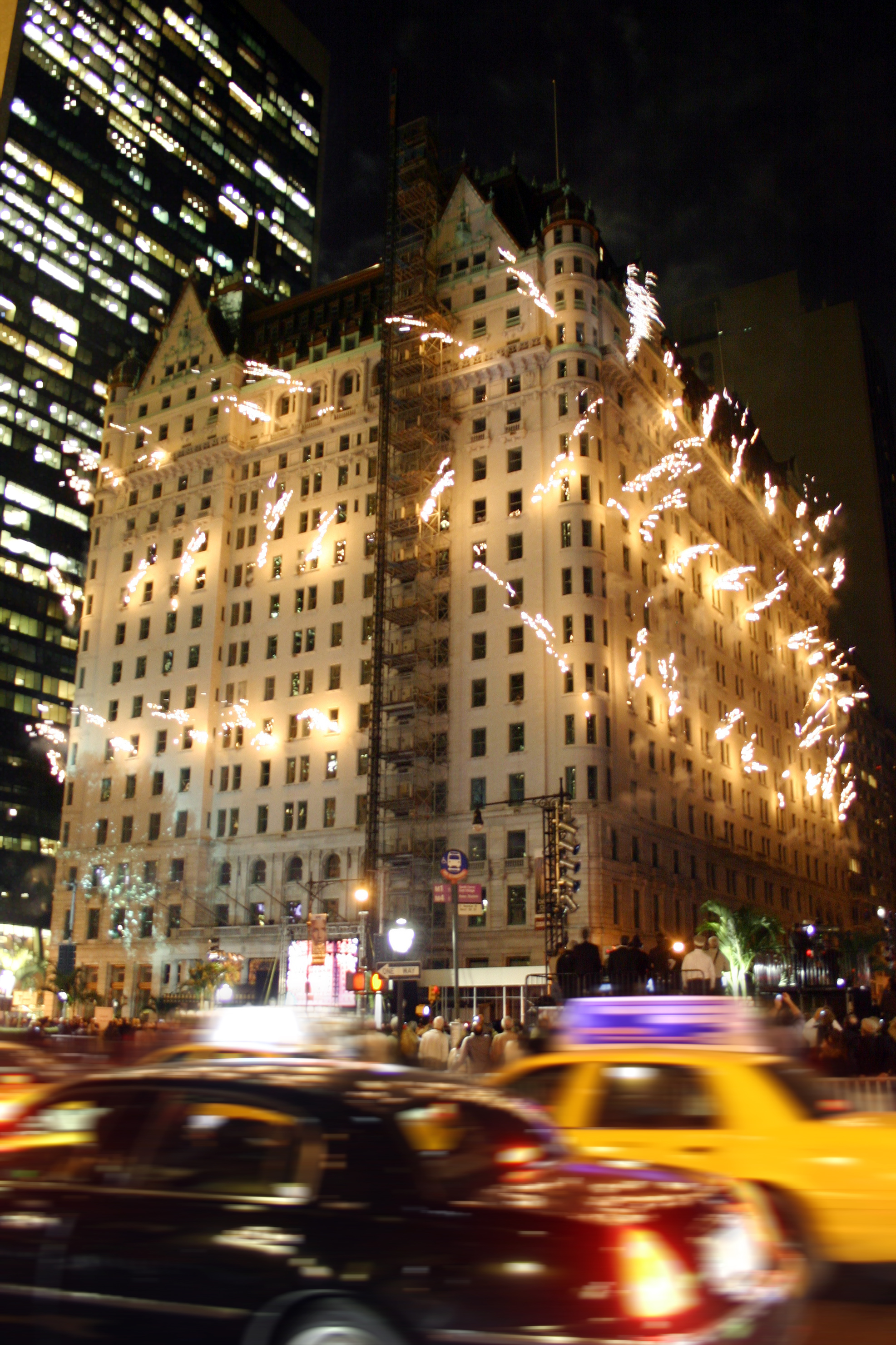 The Plaza Hotel celebrated its 100th year in 2007